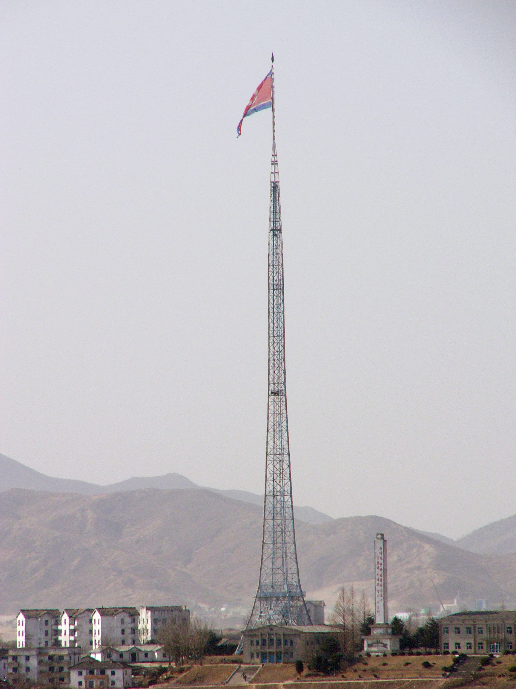 The tallest flagpole in the world, in the village Kichong-dong in North Korea, close to the Joint Security Area in Panmunjeom and the demarkation line. Photographed on 2005-02-02 by me, from Panmunjeom. A few notes: the pole is 160 metres tall, the flag weighs about 270 kg. Two persons are visible outside in the middle lower edge.